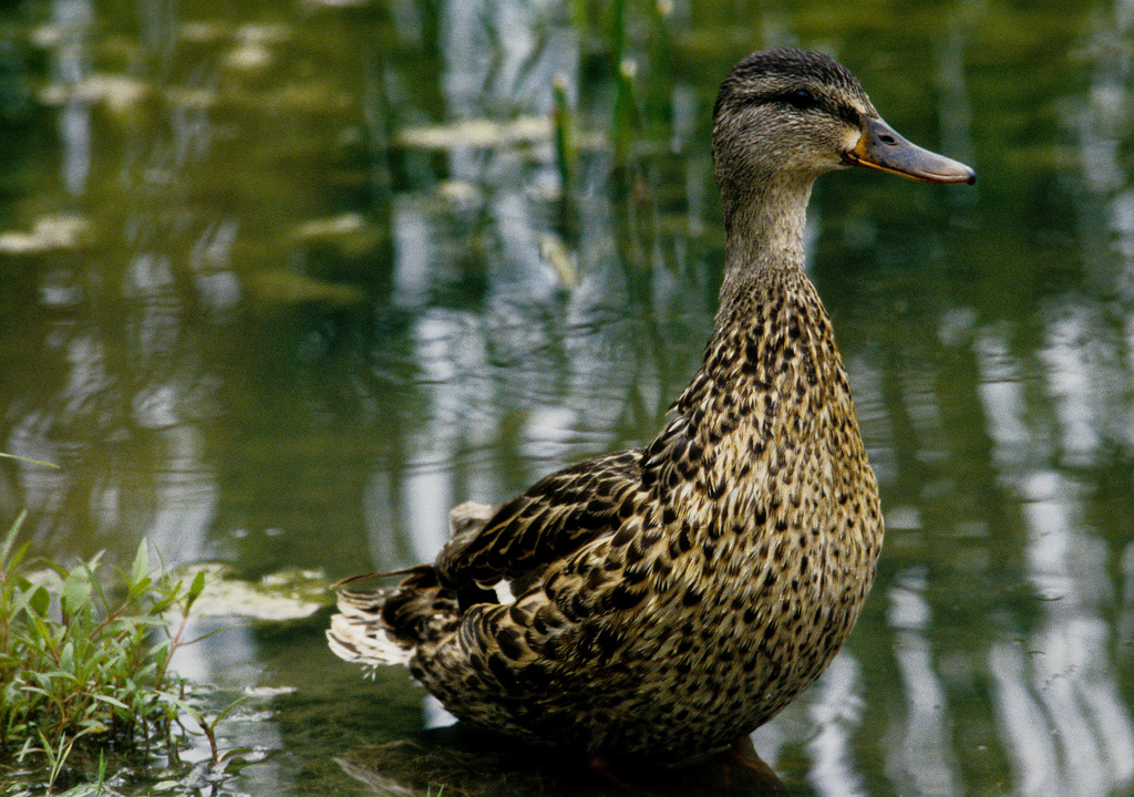 Blue-winged Teal (Anas discors)